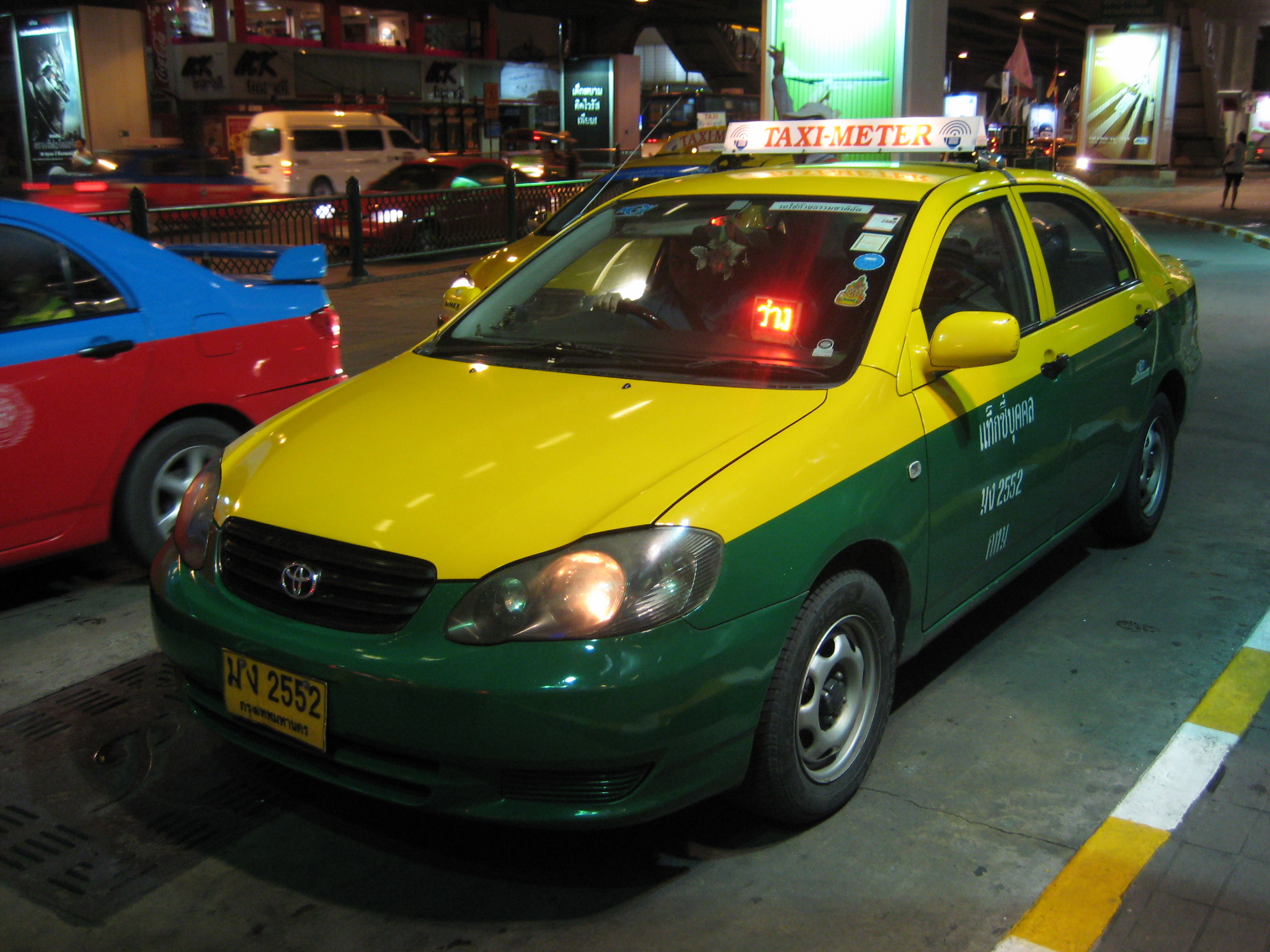 A Toyota Corolla Altis yellow taxi in Bangkok, Thailand.